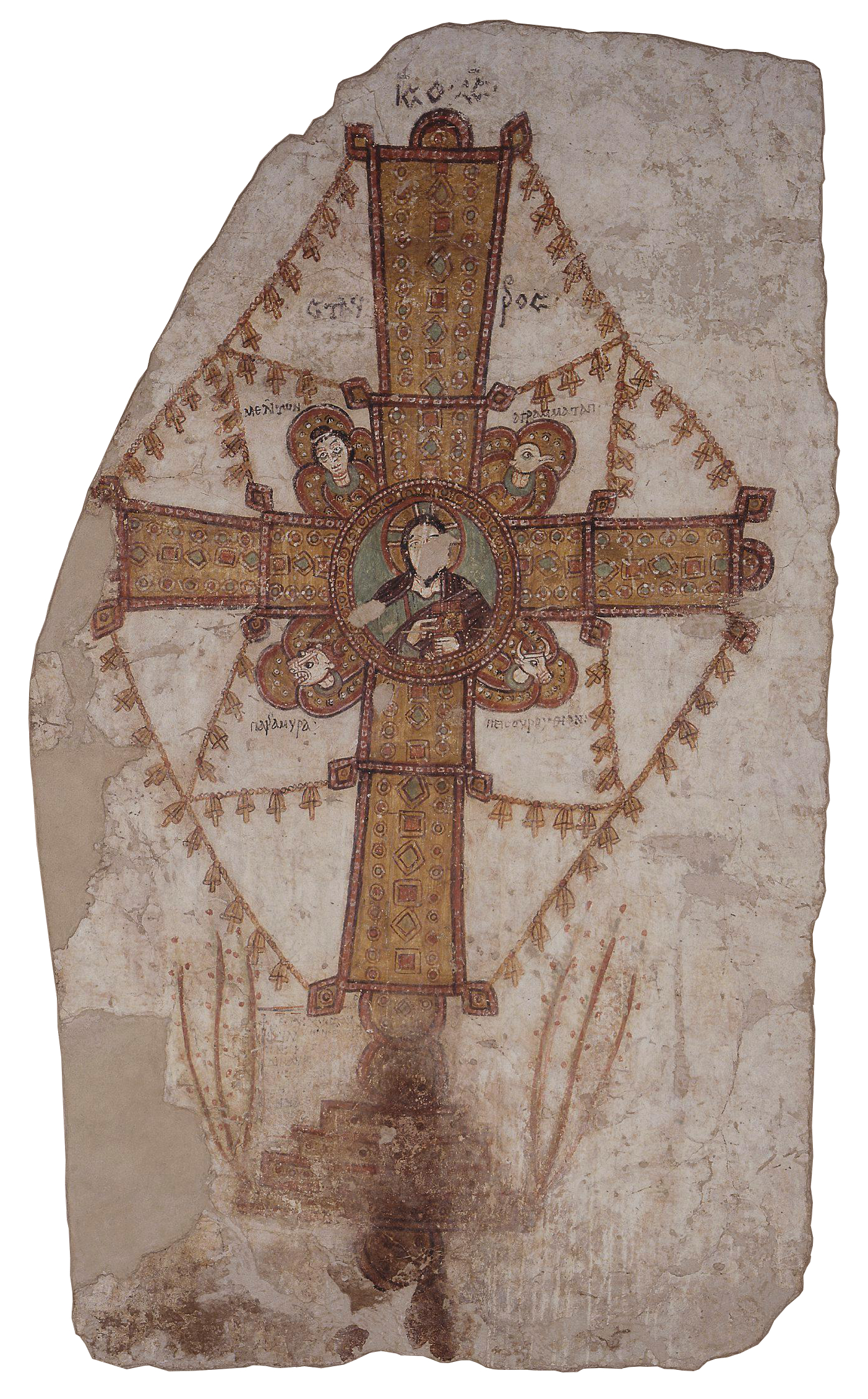 Elaborate mural from Faras, depicting a cross (12th century). Originally from here